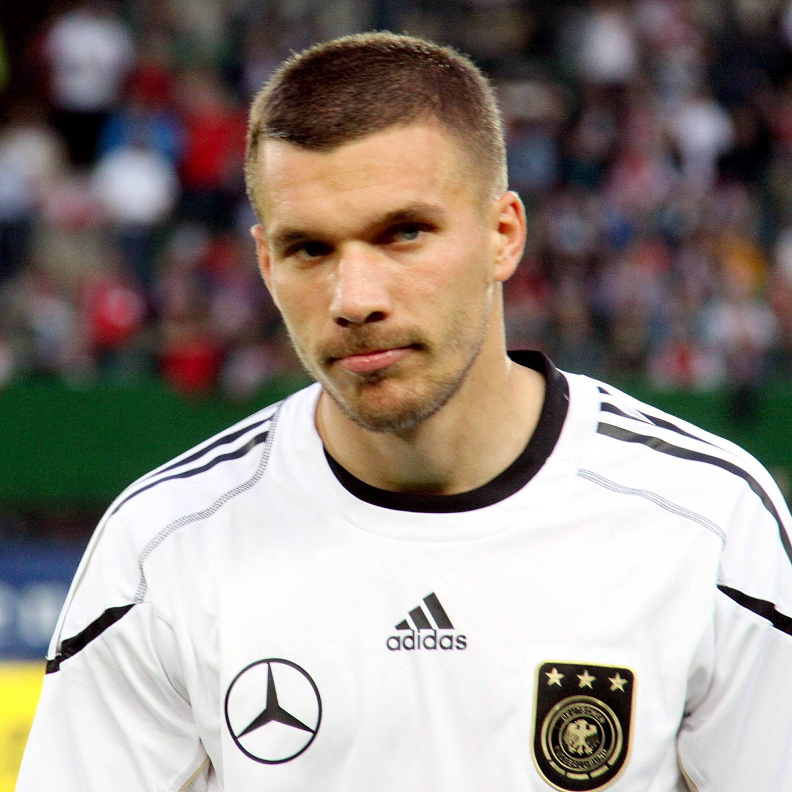 Lukas Podolski (1. FC Köln), german national football team